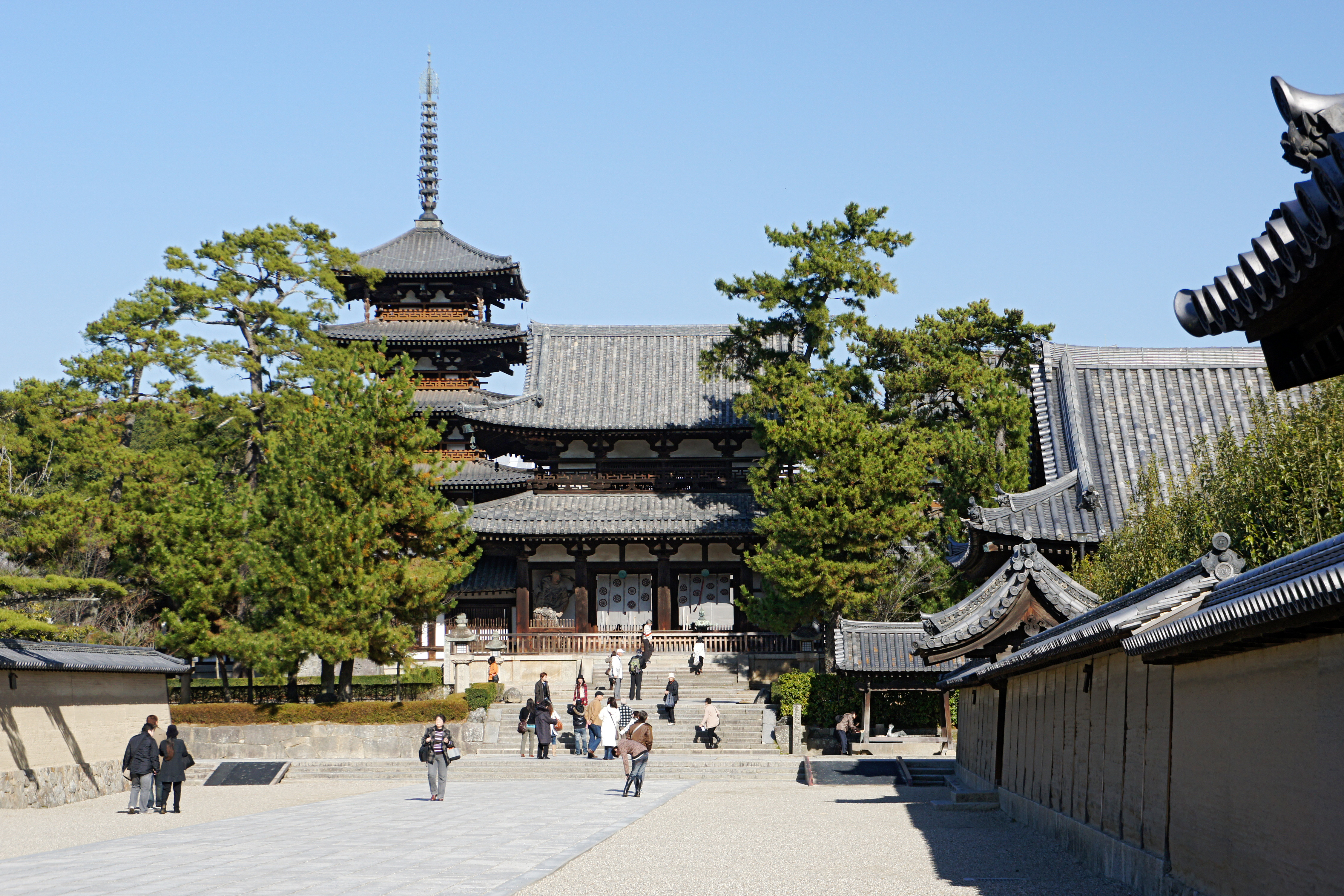 Inner Gate and Five-storied Pagoda of Hōryū-ji are Japan's National Treasures. Hōryū-ji is a Buddhist temple in Ikaruga, Nara prefecture, Japan. It was registered as part of the UNESCO World Heritage Site "Buddhist Monuments in the Hōryū-ji Area".